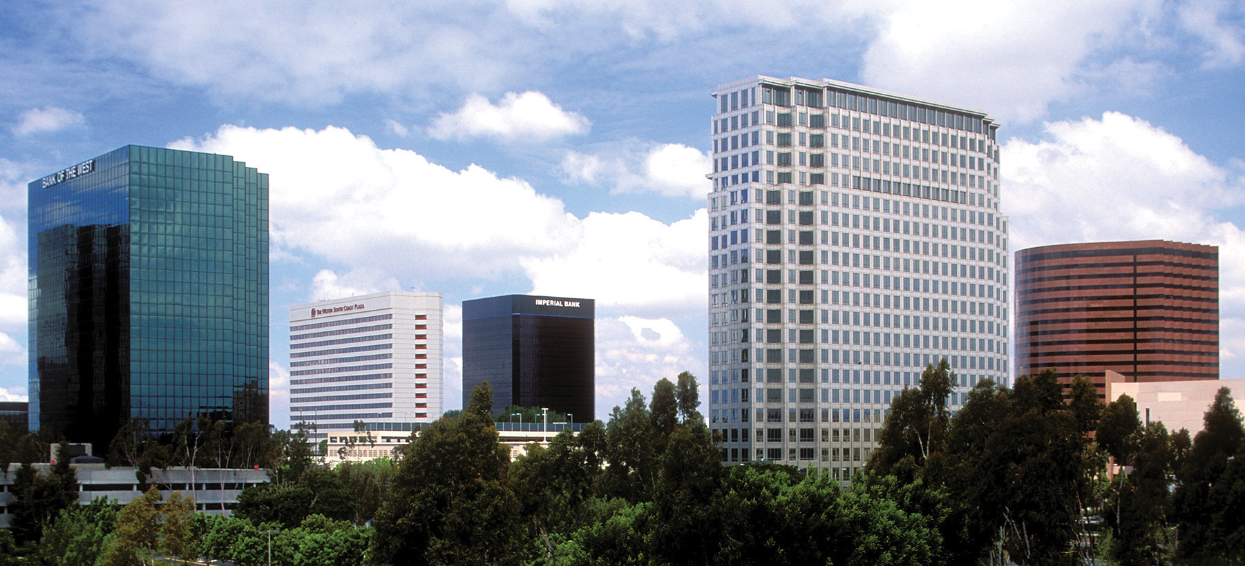 Picture of the Orange County South Coast - Costa Mesa Metro area. From left to right: Bank of the West Tower (1981), Westin South Coast Plaza (1975), Park Tower (1979), Plaza Tower (César Pelli, 1992), Center Tower (1985).